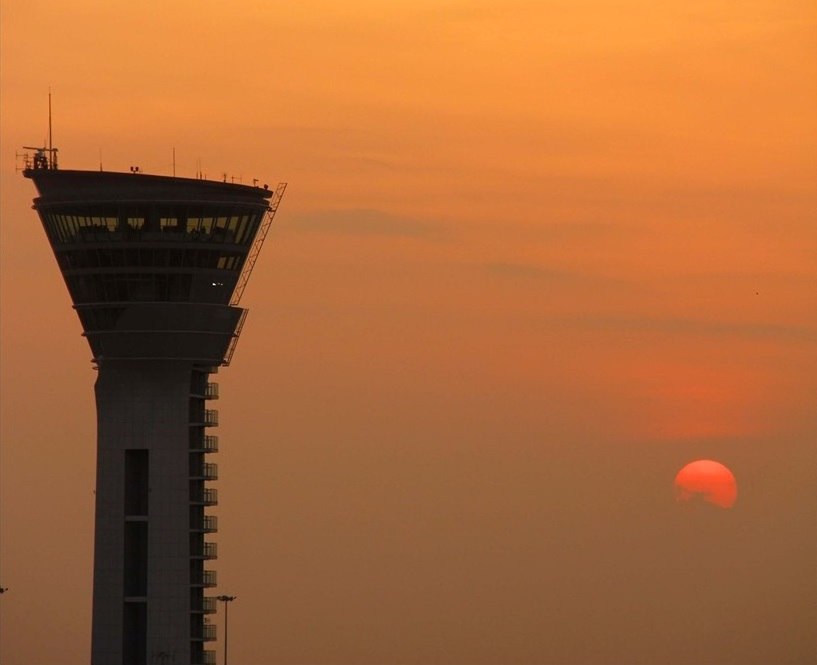 Watchtower of Hyderabad airport.